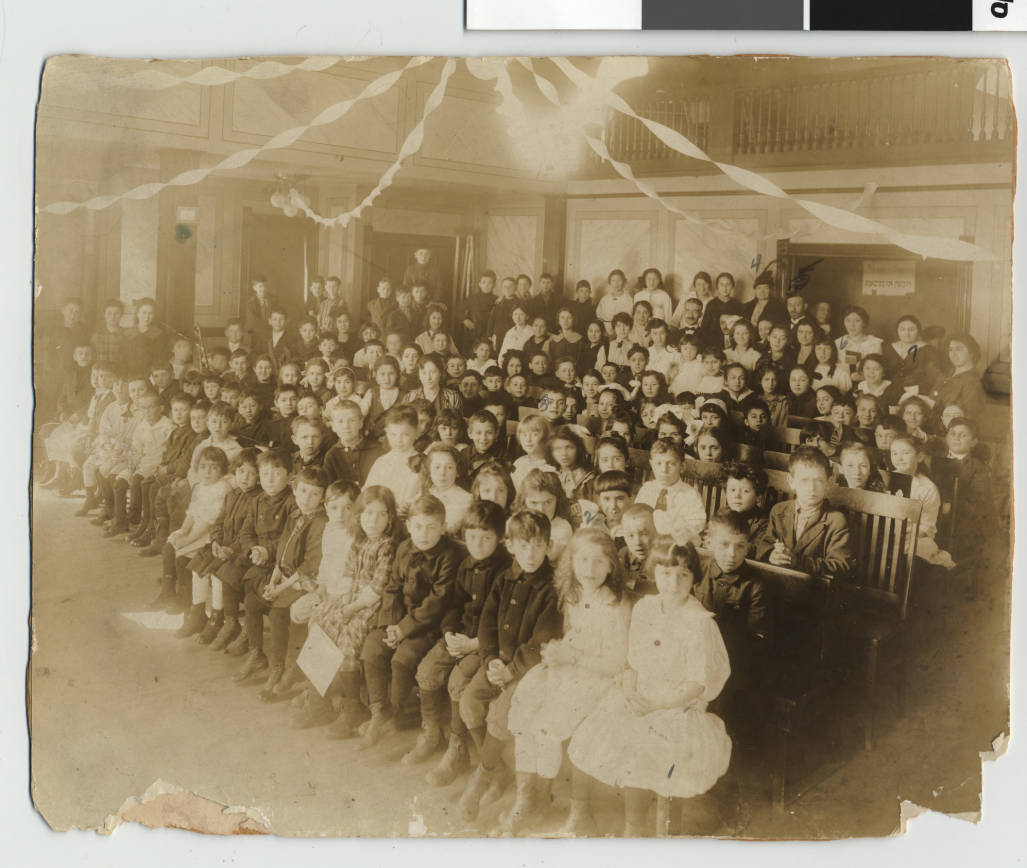 The Hebrew School was formally organized in 1905 and incorporated in 1908. The driving force behind the school was Mrs. Ida Cook, a Lithuanian immigrant. The school, according to the articles of incorporation, was to "…furnish persons of Hebrew parentage with religious instruction in harmony with the Hebrew religion; to teach the Hebrew and English languages...and to promote religious principles and devotion." The school later became the Duluth Talmud Torah. Date: 1916 Source: 24 cm x 19.5 cm Format: Sepia original photo Subject: Education; Talmud Torah--Duluth; Religious education Coverage: Duluth; St. Louis; Minnesota; United States Local Identifier: 260 Link to our record: From the Steinfeldt Photography Collection of the